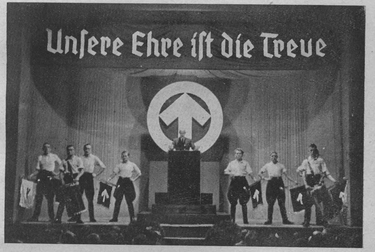 Rally of the German Union in Bydgoszcz, 1938